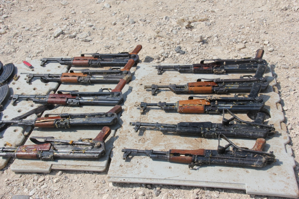 July 25th, 2011 Today the IDF and Israel Police thwarted an attempt by two Palestinians to smuggle weapons from Jordan to the West Bank. A rubber-inflated boat carrying ten AK-47 assault rifles, ten matching magazines and approximately 300 bullets along with the Palestinian suspects, was apprehended by the IDF and Police in the Dead Sea. The two Palestinians onboard will be questioned by Israeli security forces. Pictured: The AK-47 assault rifles found by the IDF and Israeli Police.